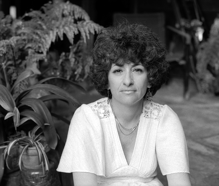 Dr. Barbara Myerhoff, University of Southern California professor and noted anthropologist